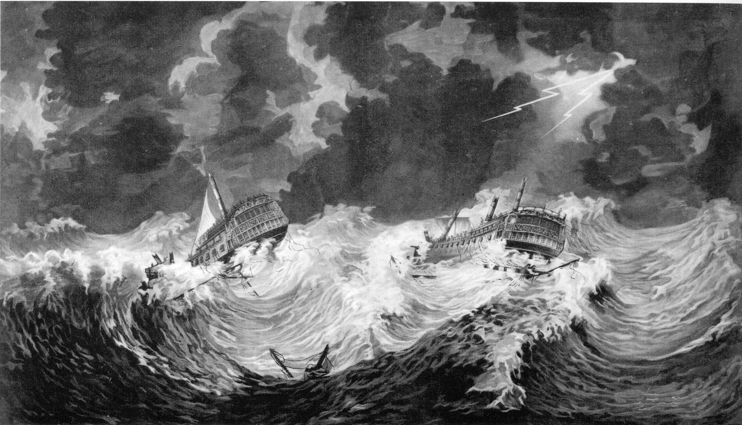 To Sir Peter Parker... This Representation of the distressed situation of his Majesty's Ships Hector and Bristol when dismasted in the Great Hurricane, Octr 6th, 1780... by... Willm Elliott; mezzotint